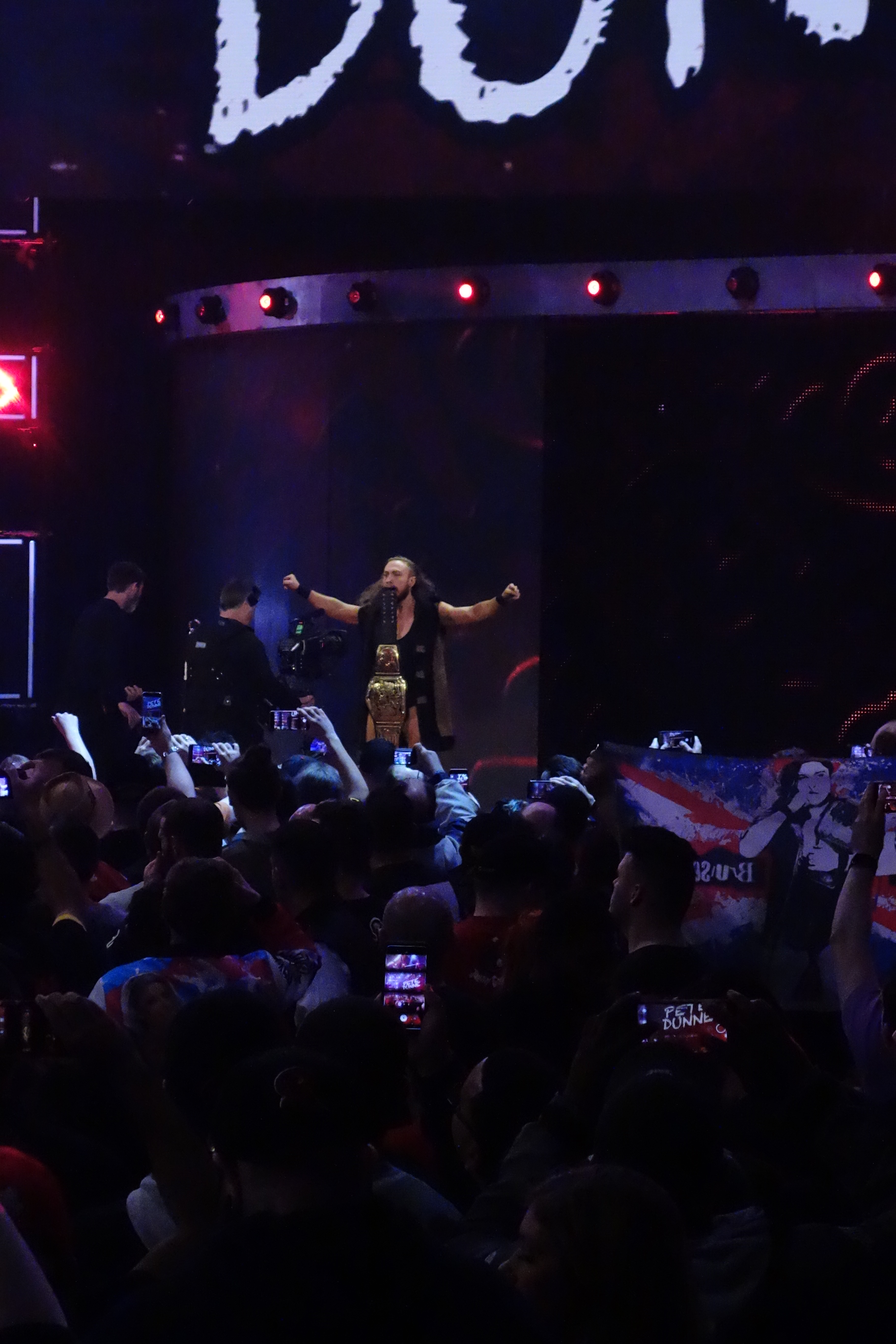 Pete Dunne